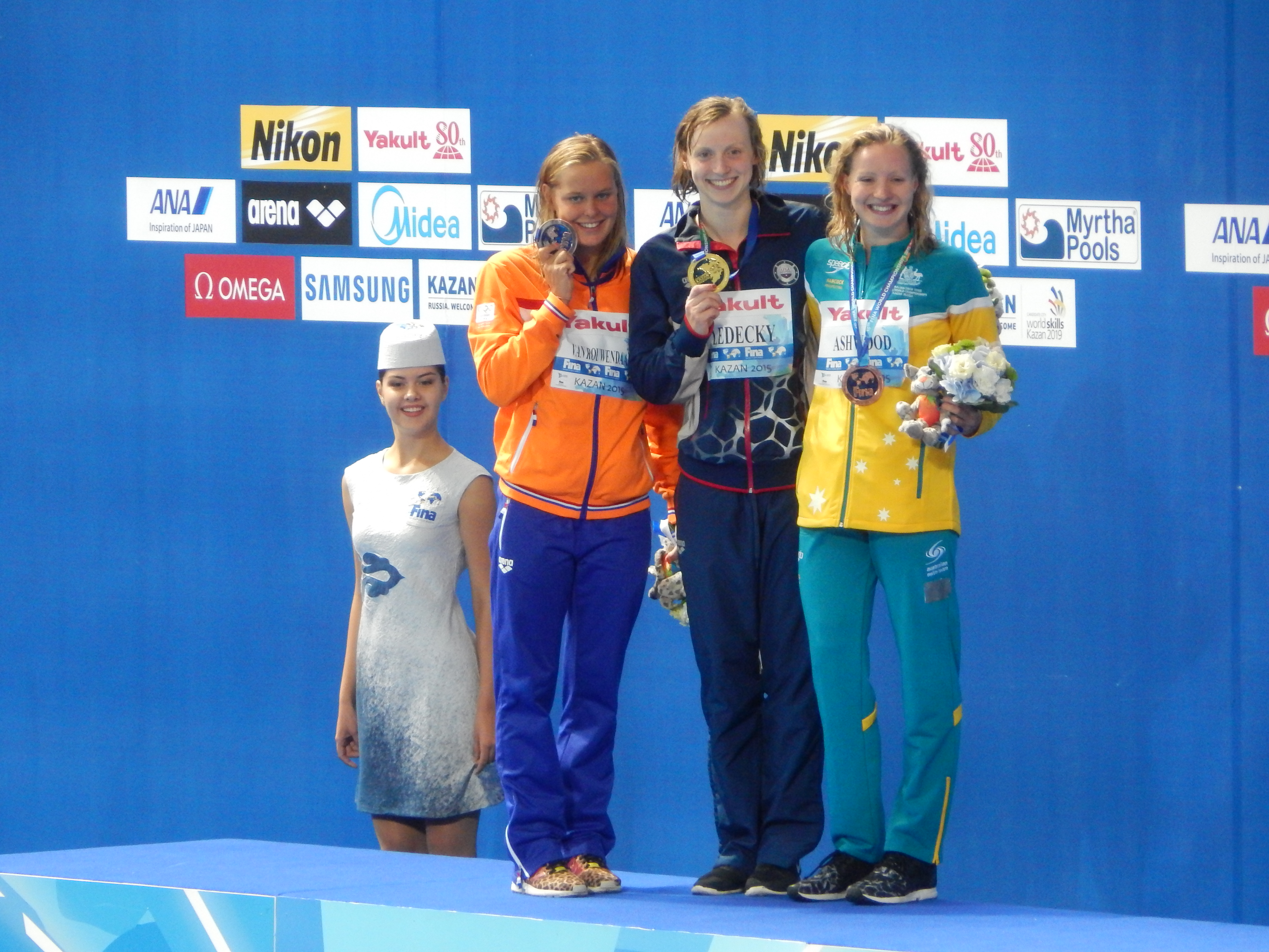 Medallists at the women's 400 metres freestyle in Kazan 2015